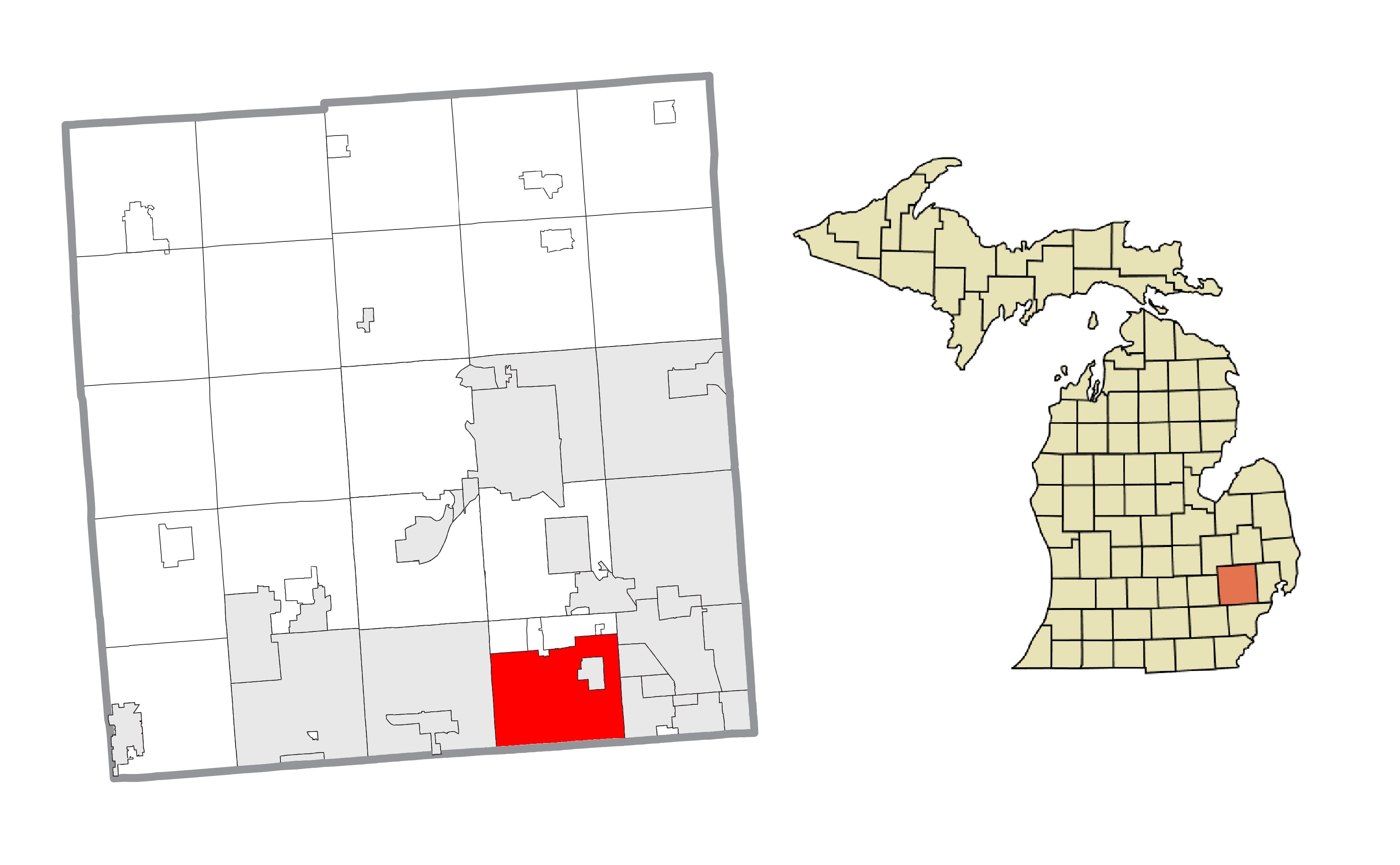 Southfield, MI